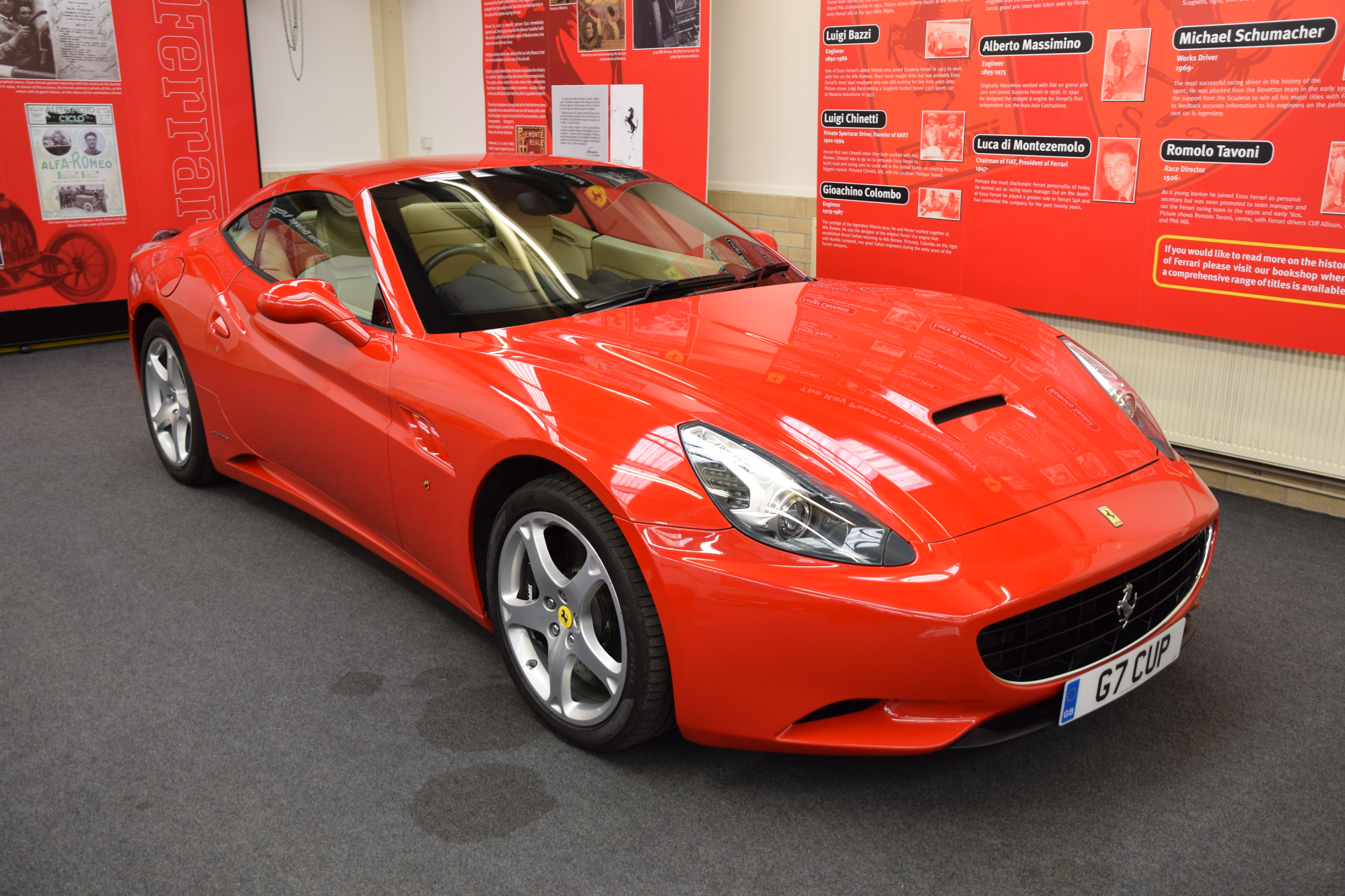 2009 Ferrari California at the Haynes International Motor Museum, Sparkford, 8 May 2017.